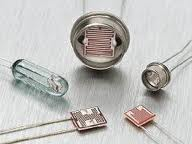 View of photoresistor